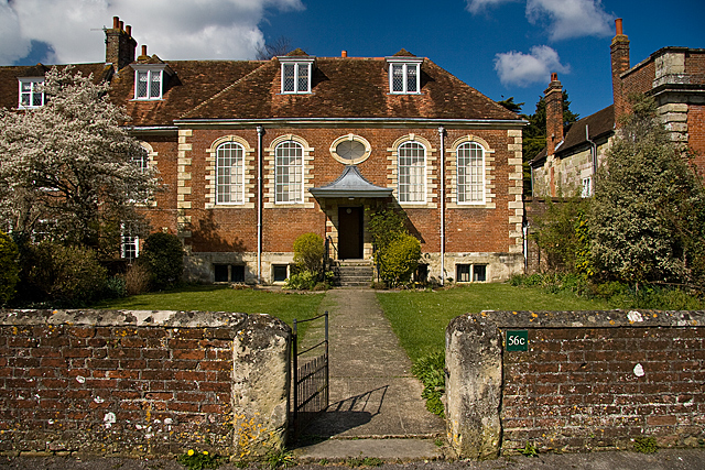 Houses of The Close: no. 56c, Wren Hall Originally the north wing of Braybrooke House next door, it's named after the architect Sir Christopher Wren, whose architectural style may have influenced its subsequent rebuilding. This took place in 1714, under the direction of Clerk of Works of the Cathedral William Naish. He established the Choristers' School here which consisted of a classroom on the ground floor, and a dormitory for the choristers in the attic. Today it is an educational resource centre for the Cathedral, and Grade I Listed.